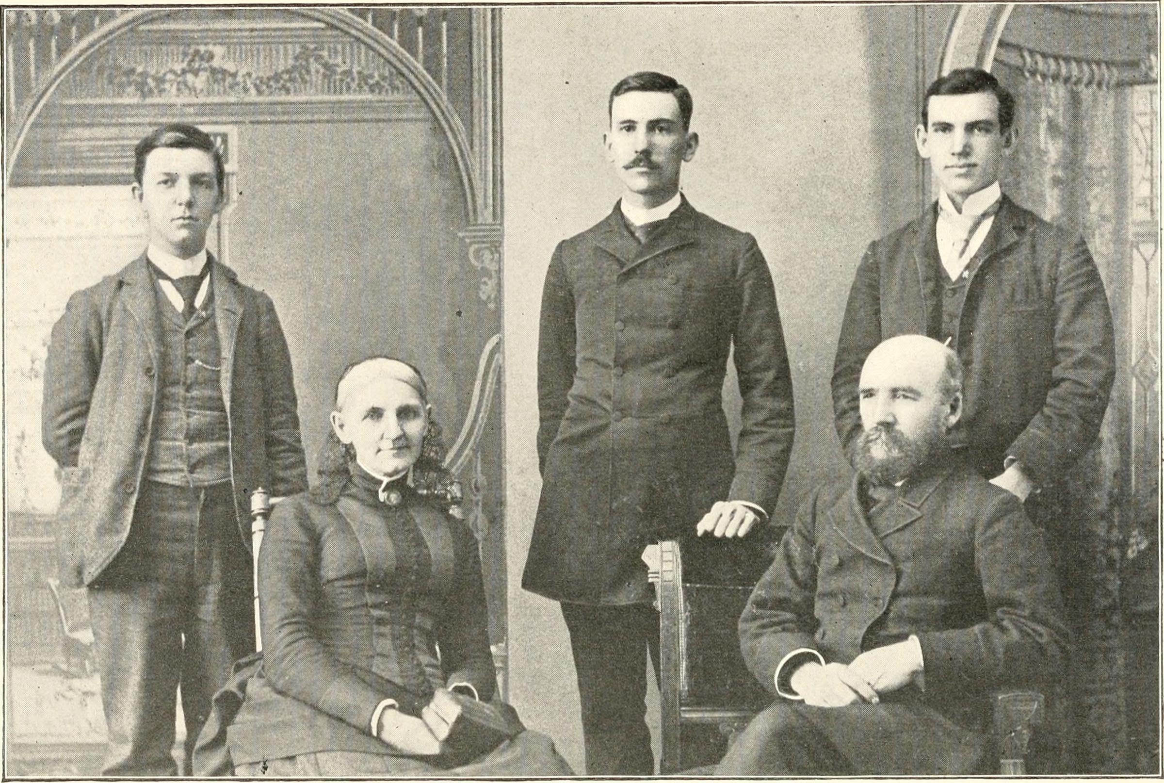 From left to right: Ephraim C. Shedd, Mrs. John H. Shedd, Rev. William A. Shedd, Rev. John H. Shedd (seated), and Prof. John C. Shedd (taken in 1899) Title: Genealogy of the descendants of John White of Wenham and Lancaster, Massachusetts Year: 1900 (1900s) Authors: White, Almira Larkin, 1839- (from old catalog) Subjects: White family Publisher: Haverhill, Mass., Chase brothers, printers